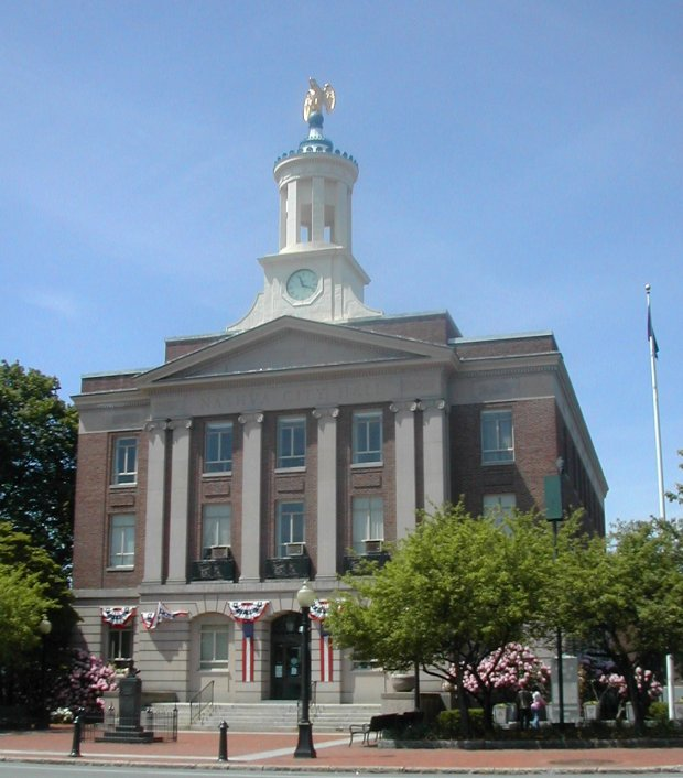 Photograph by Gary McGath, May 30, 2006. City Hall, Nashua, New Hampshire. Uploaded by the photographer.